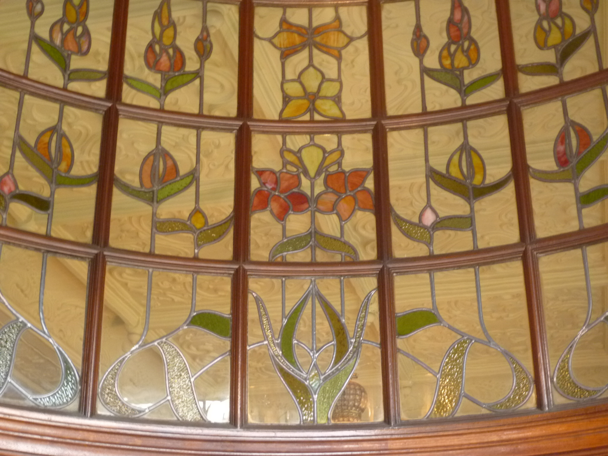 Floral Art Nouveau stained glass windows. Built 1899-1901 by John Cathles Hill (1858-1915), was formerly a hotel and is a Grade II listed building.